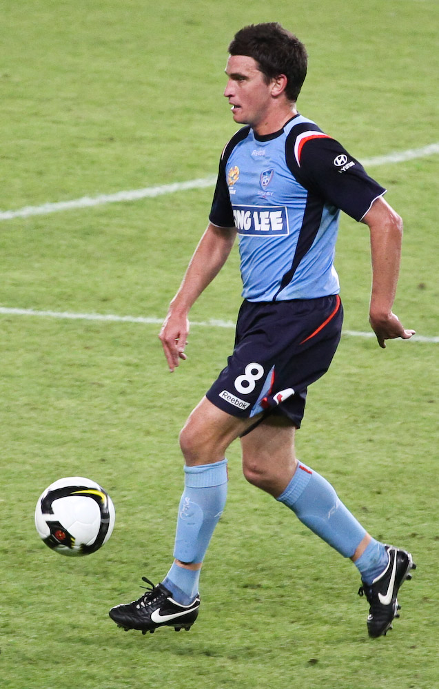 Stuart Musialik playing for Sydney FC against the Central Coast Mariners in Round 10 of the 08/09 A-League.